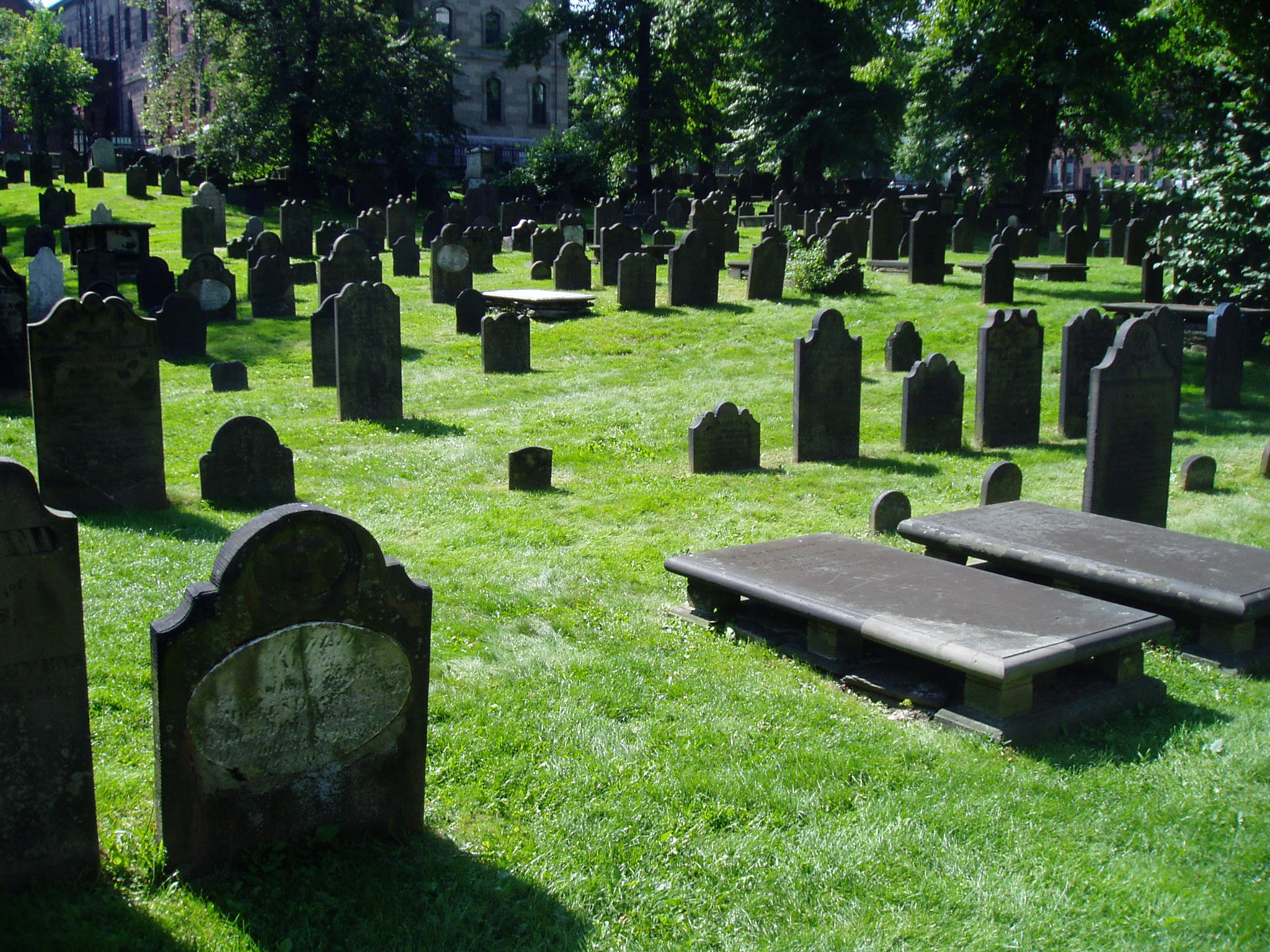 The Old Burying Ground in Halifax. Taken by SimonP